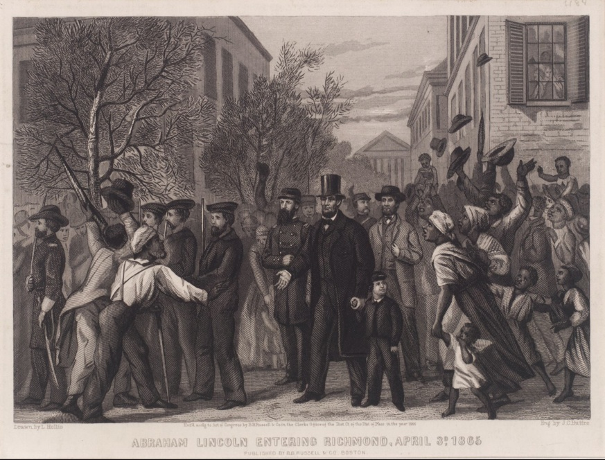 Abraham Lincoln Entering Richmond (April 1865)